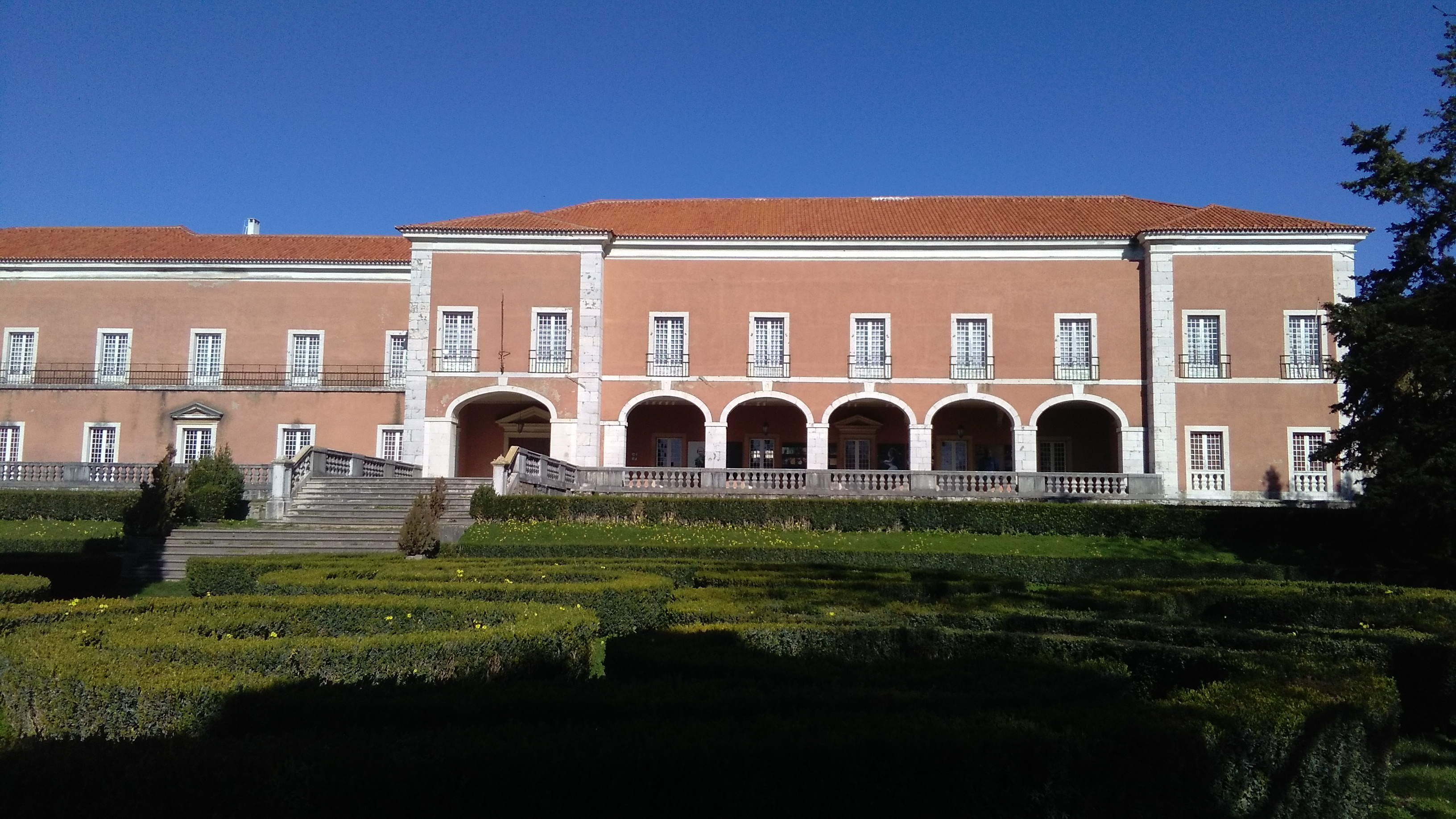 Palace of the Counts of Calheta. Built in the 17th century, it housed the Tropical Agriculture Museum. It is now part of the Tropical Botanical Garden of Lisbon, Portugal.